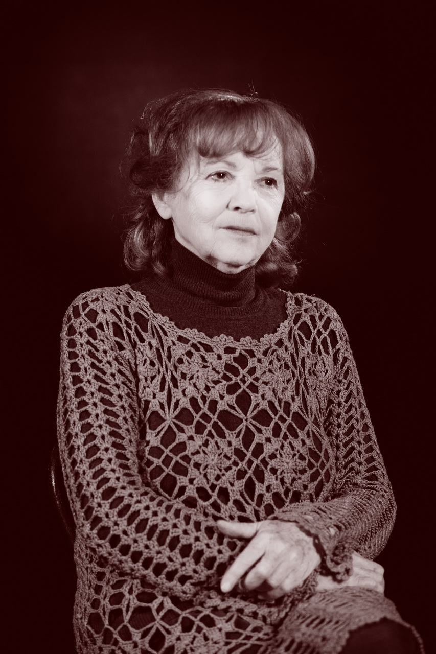 Ksenija Martinov Pavlović, an actress of the Serbian National Theatre Srpski (latinica): Ksenija Martinov Pavlović, glumica Srpskog narodnog pozorišta Српски (ћирилица): Ксенија Мартинов Павловић, глумица Српског народног позоришта